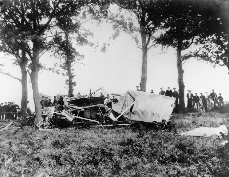 Aviation in Britain Before the First World War- the work of Samuel Franklin Cody in Airship, Kite and Aircraft Aeronautics 1903 - 1913 The wreckage of Cody Aircraft Mark VIA at Laffan's Plain near Aldershot. The aircraft broke up in mid air and crashed, killing S F Cody and his passenger, W H B Evans (captain of the Hampshire Cricket Club) instantly. The Cody Aircraft Mark VI was the last and largest of Cody's aircraft. He had intended to enter it in the 1913 Daily Mail Coastal Circuit of Britain contest. However his fatal accident prevented this.